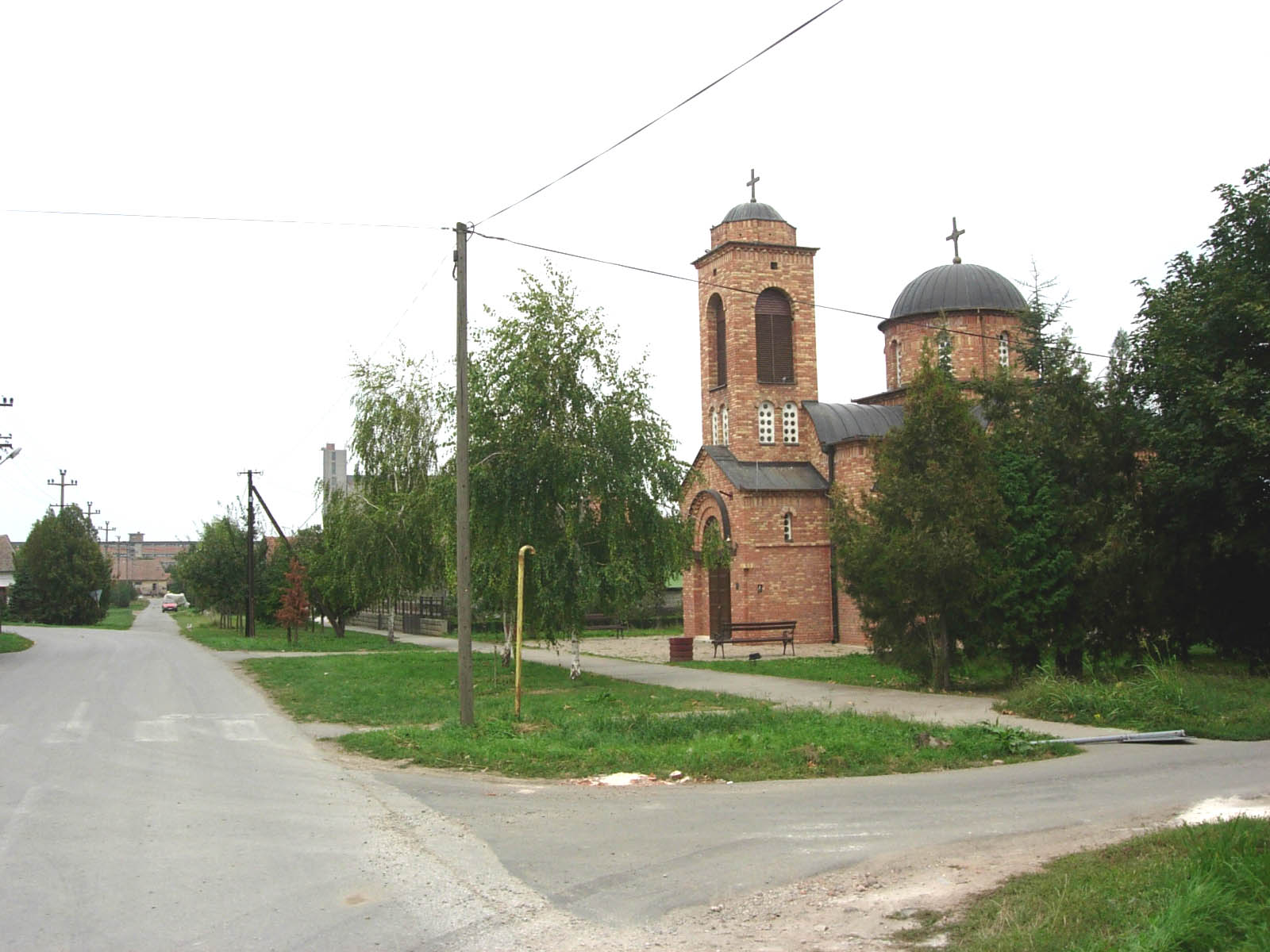 The new Orthodox church in Sečanj.